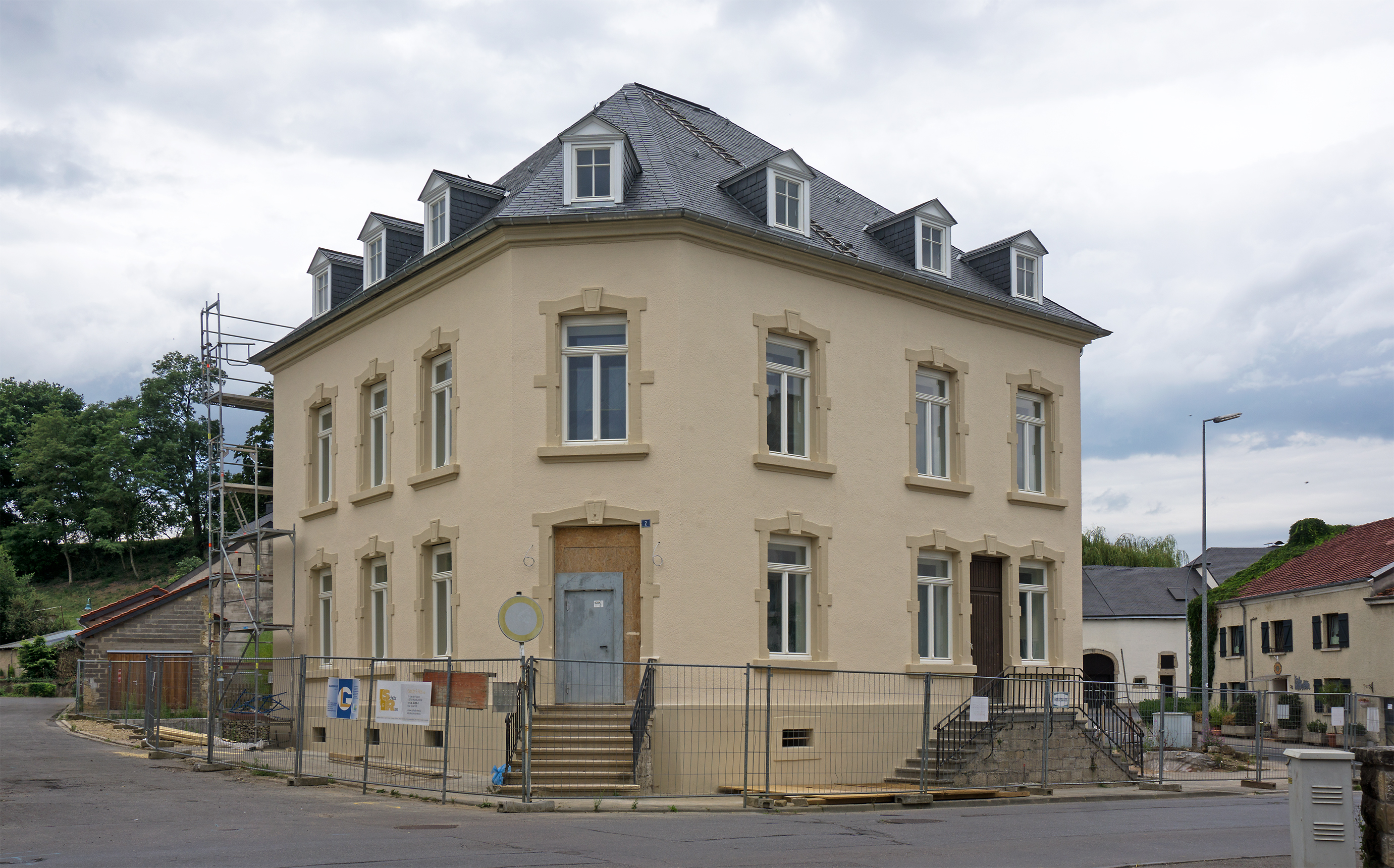 Building in Dalheim, 2 Hossegaass